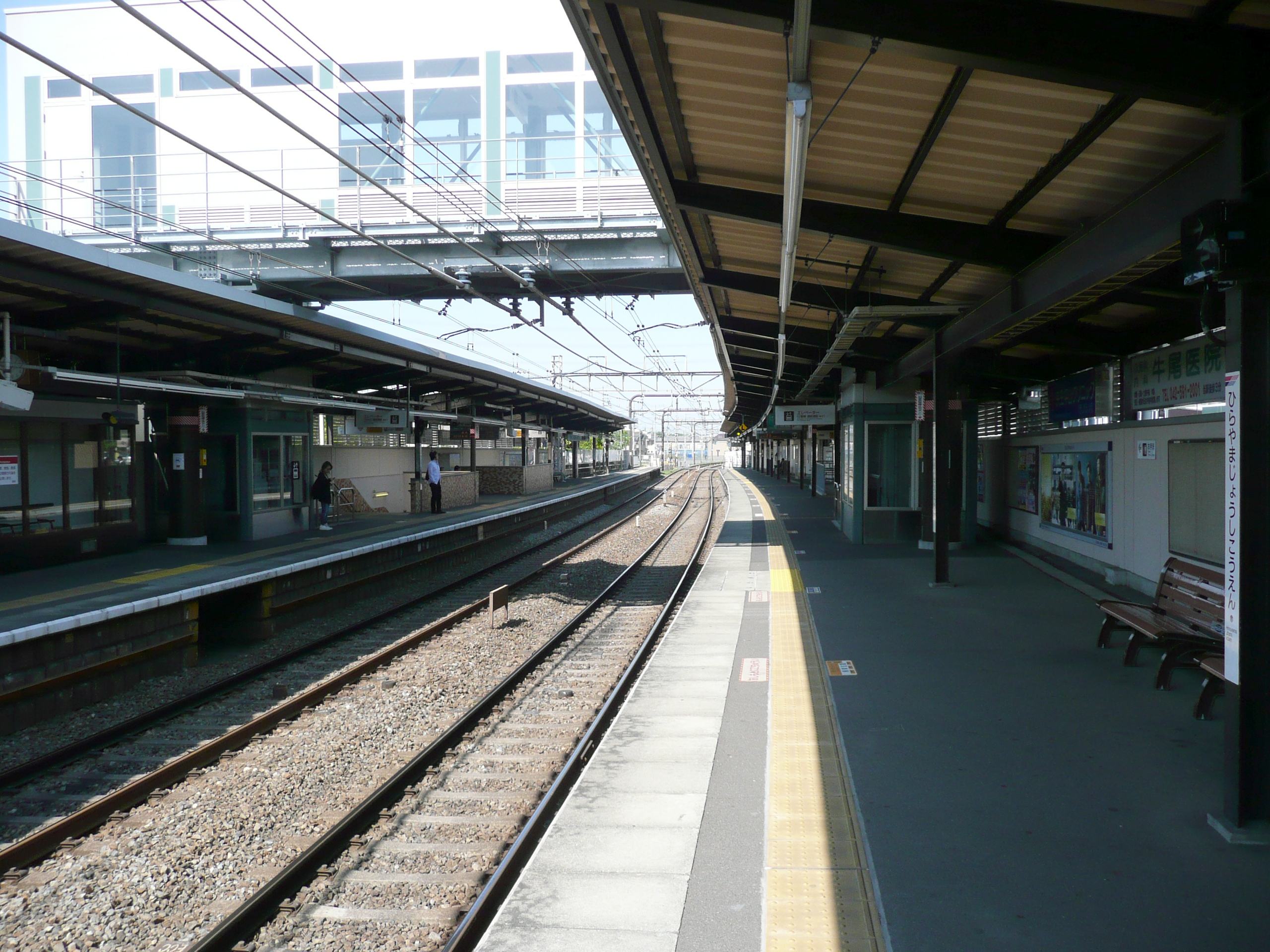 Platforms of Hirayamajōshi-kōen Station